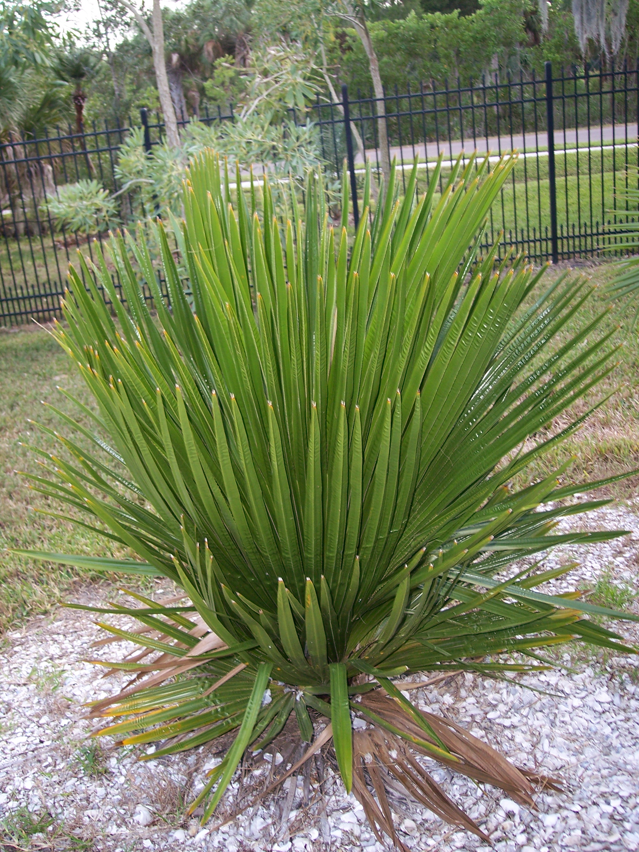 Copernicia macroglossa in Tampa, Florida